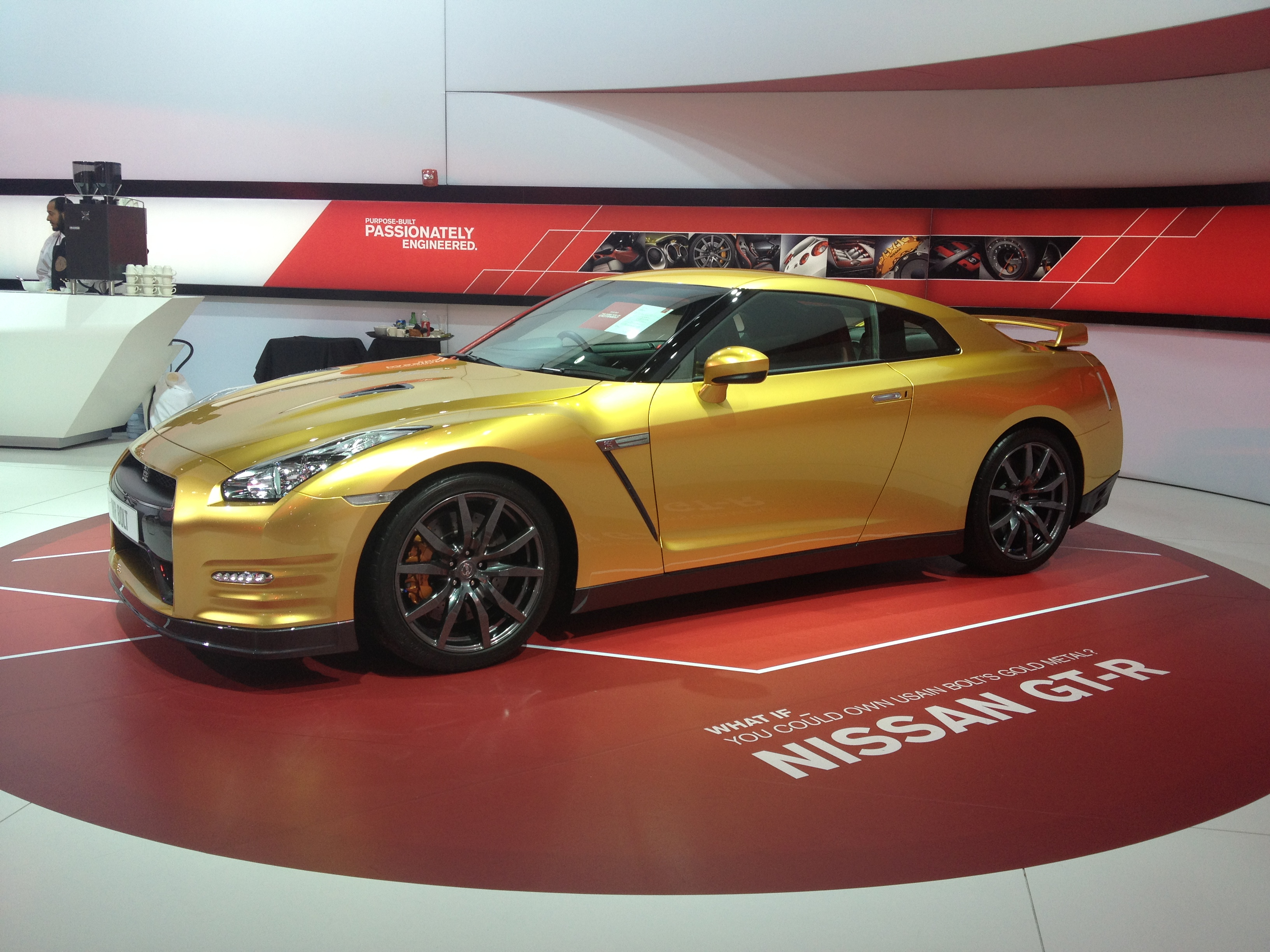 2013 North American International Auto Show Detroit, Michigan